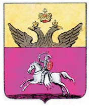 Coat of arms of Daugavpils adopted in 1781